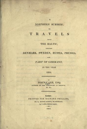 A Northern Summer title page, Sir John Carr (1772-1832)